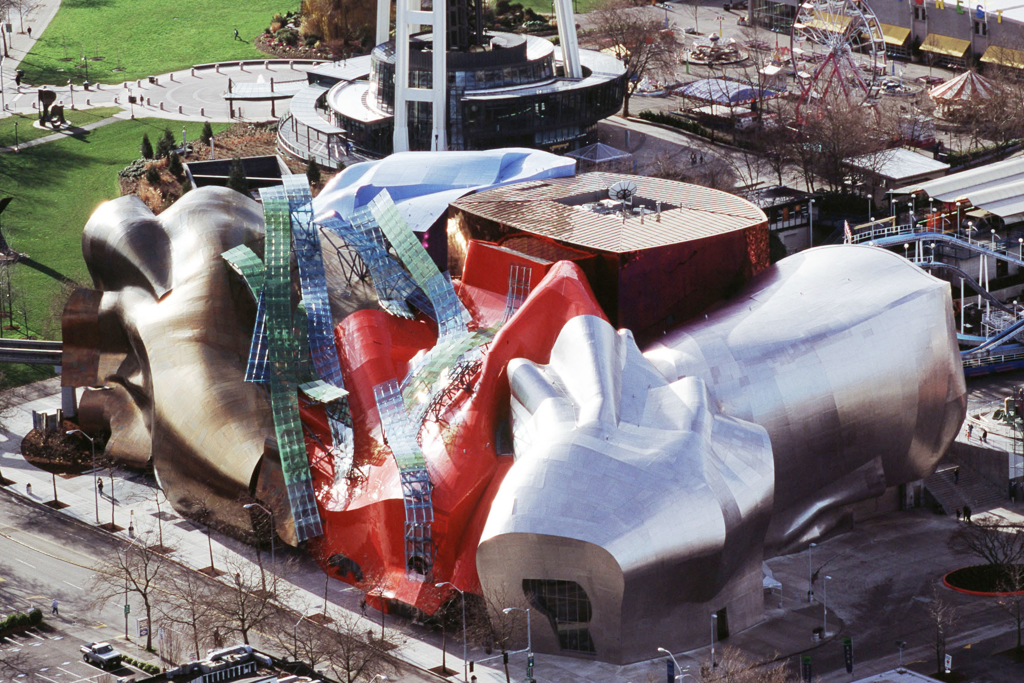 Aerial view of EMP|SFM in Seattle